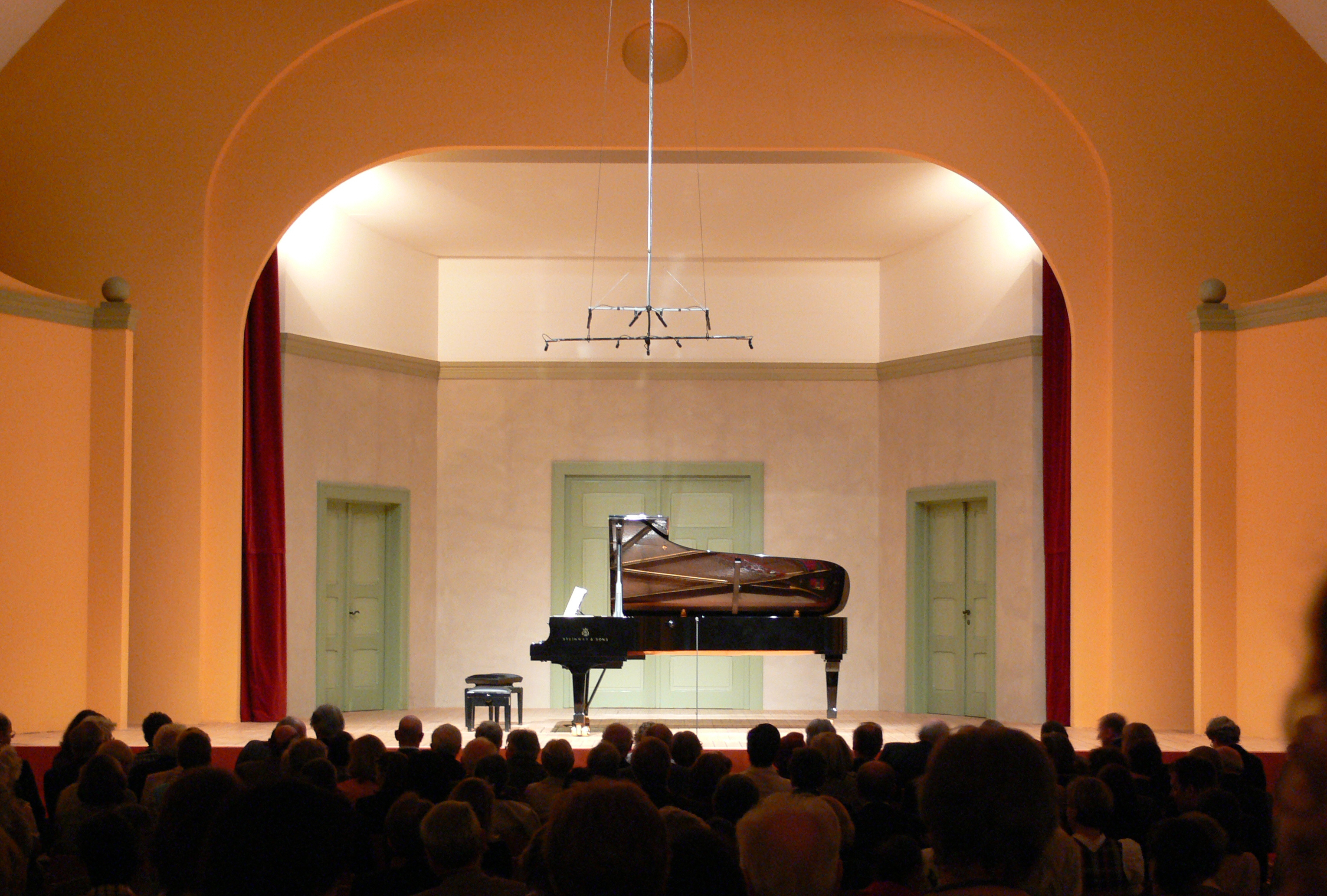 Interior of Markus-Sittikus-Saal in Hohenems, Austria.